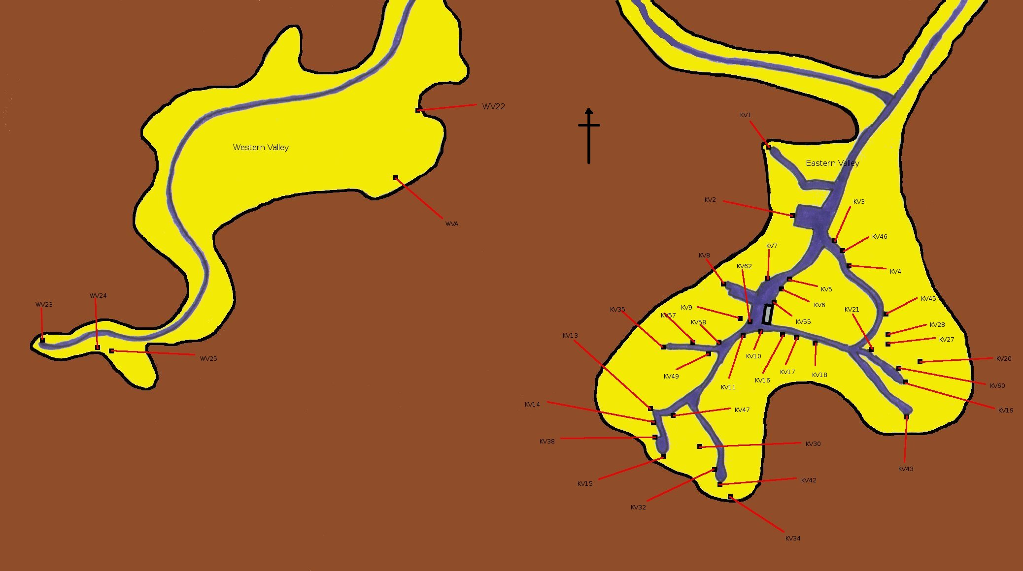 Sketch map of the Valley of the Kings, showing important tombs. By user:Markh.